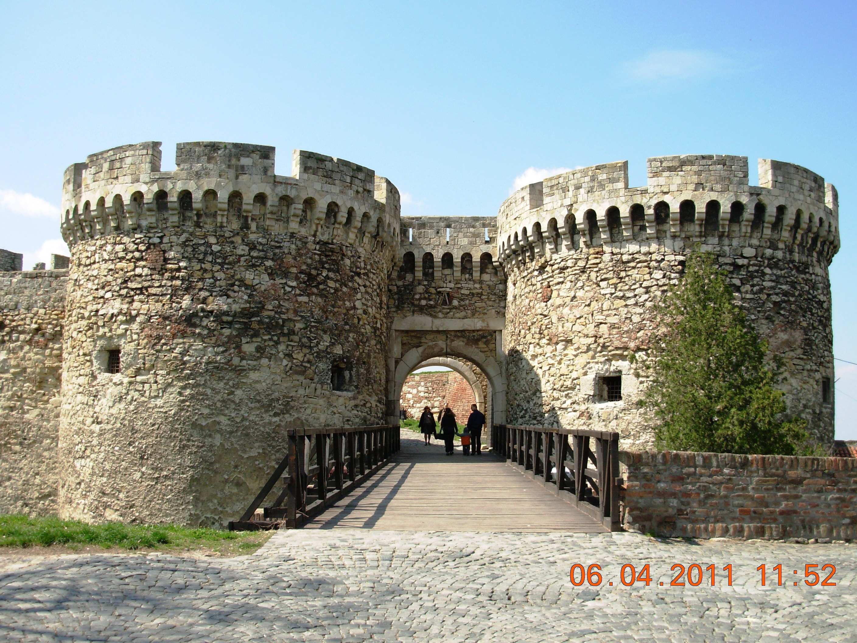 Zindan kapija is a Middle eve gate in Belgrade fortress on Kalimegdan, Belgrade, Serbia